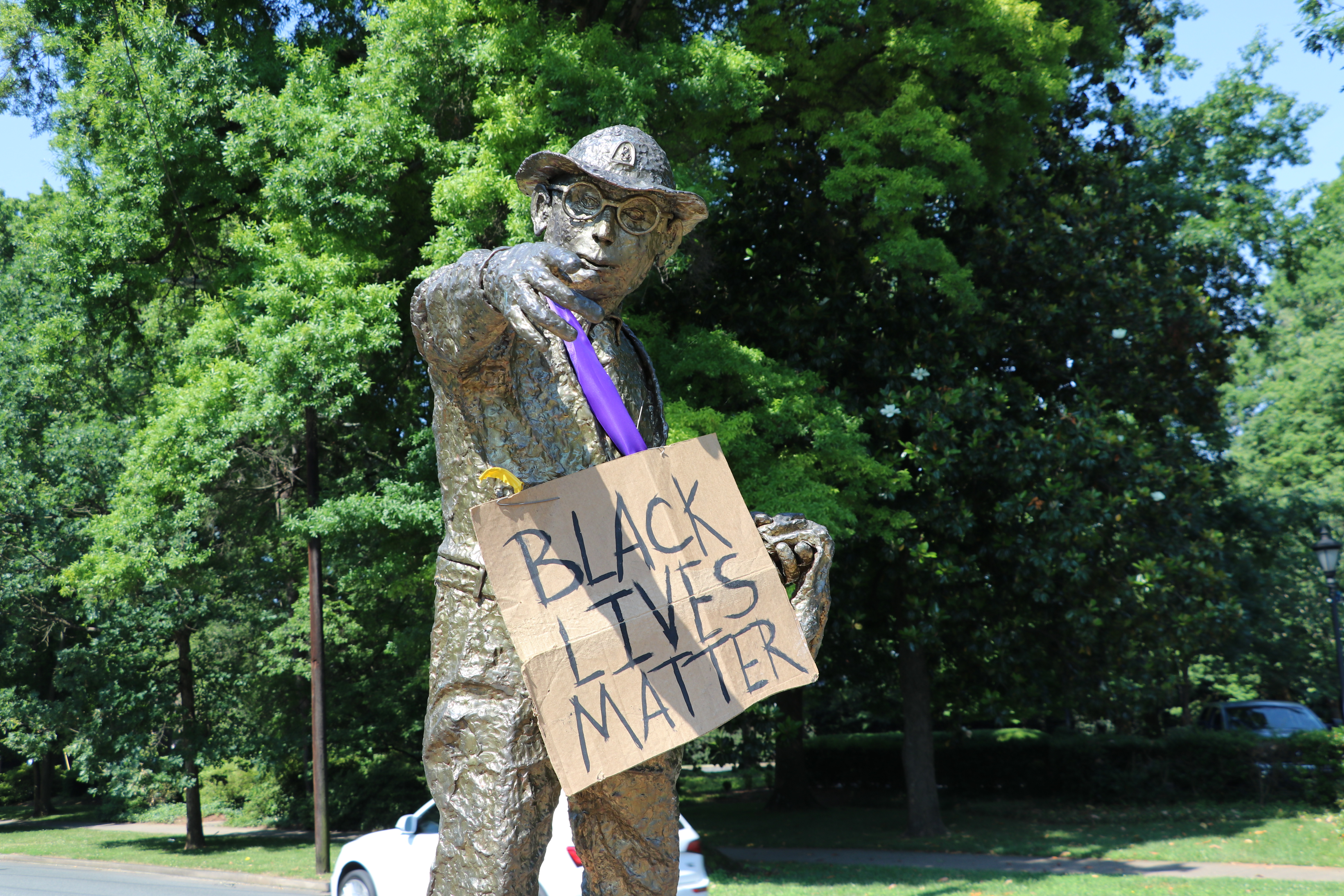 A notable statue of local historic figure Hugh McManaway draped in a Black Lives Matter sign in Charlotte during the George Floyd protests.